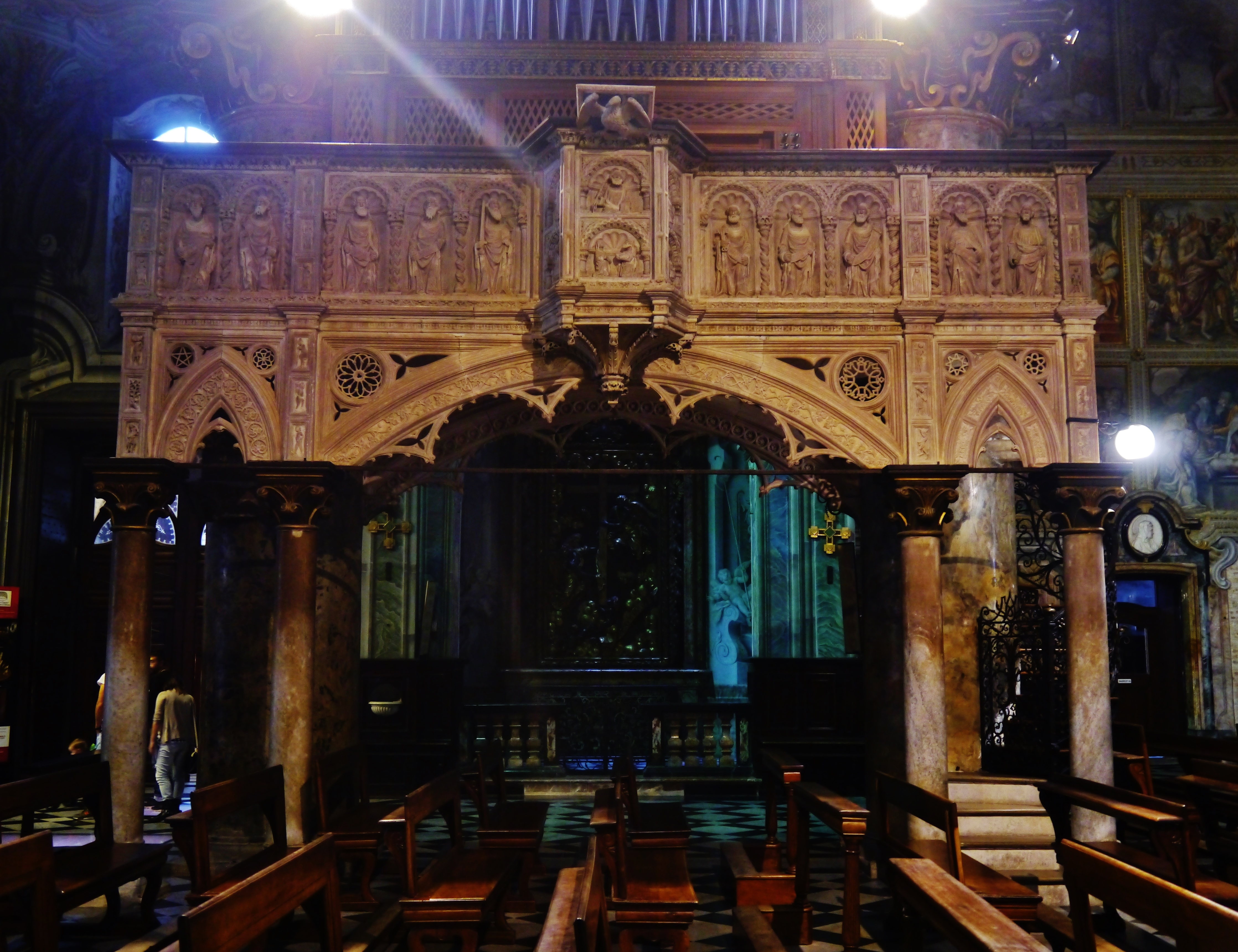 Organ Gallery of the Church of St. John the Baptist, Monza, Province of Monza & Brianza, Region of Lombardy, Italy